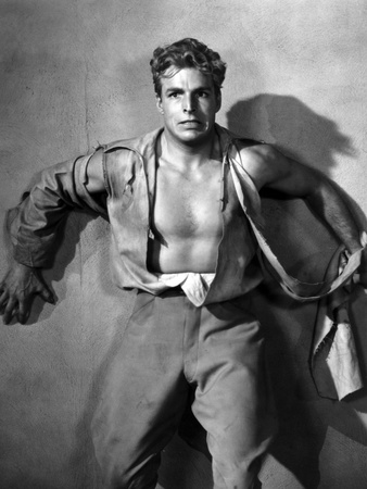 Crabbe as Flash Gordon (Studio promotional photo, 1936)